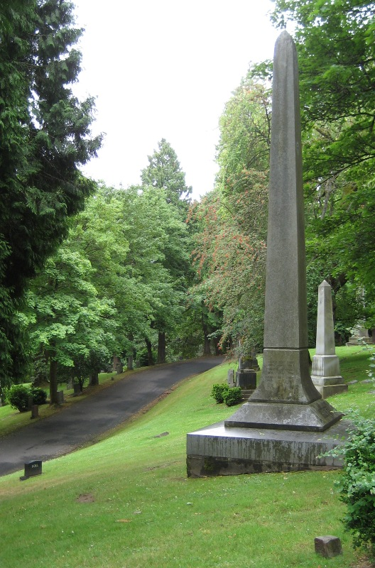 River View Cemetery